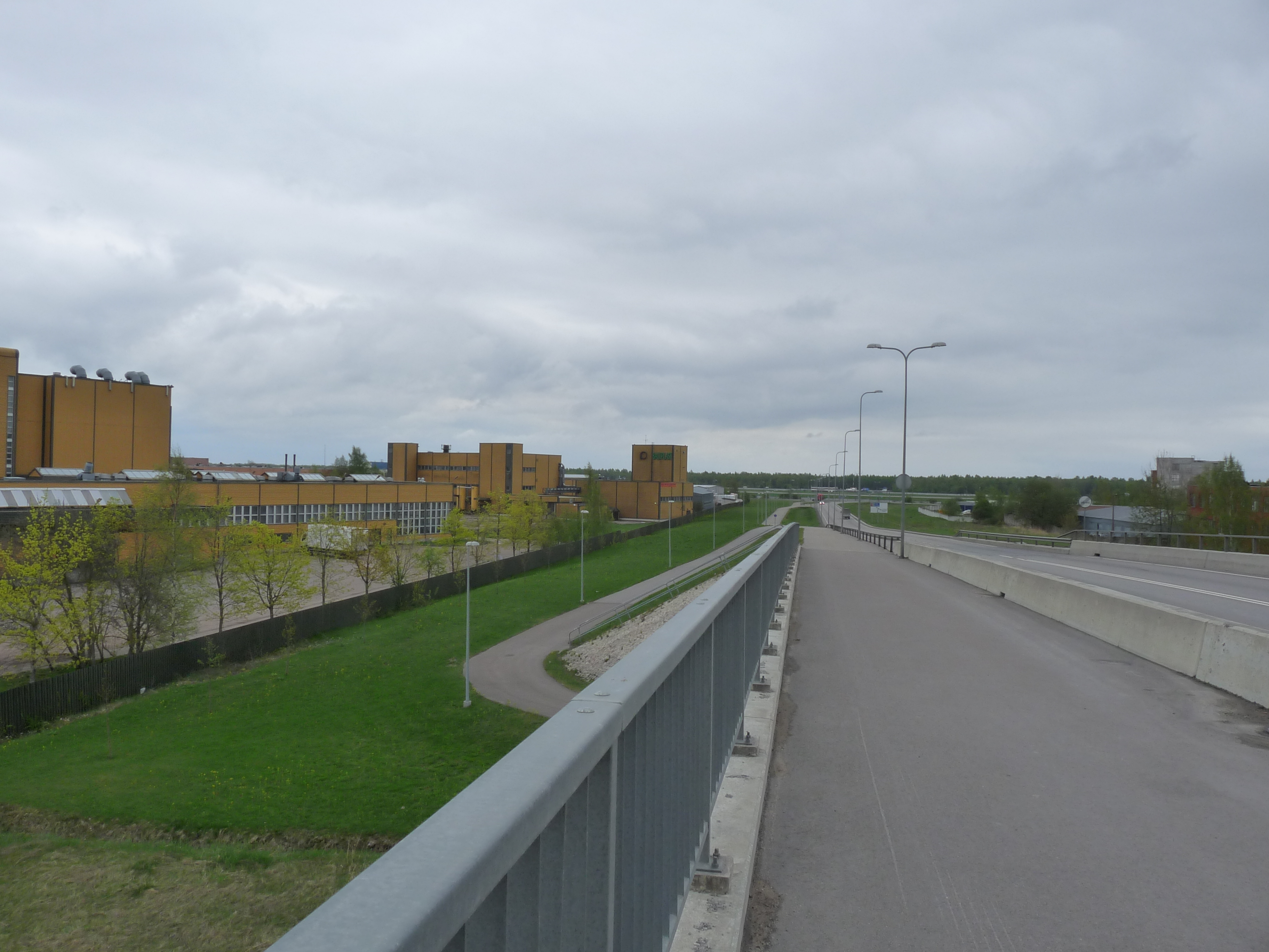 View from Smuuli bridge to Suur-Sõjamäe street